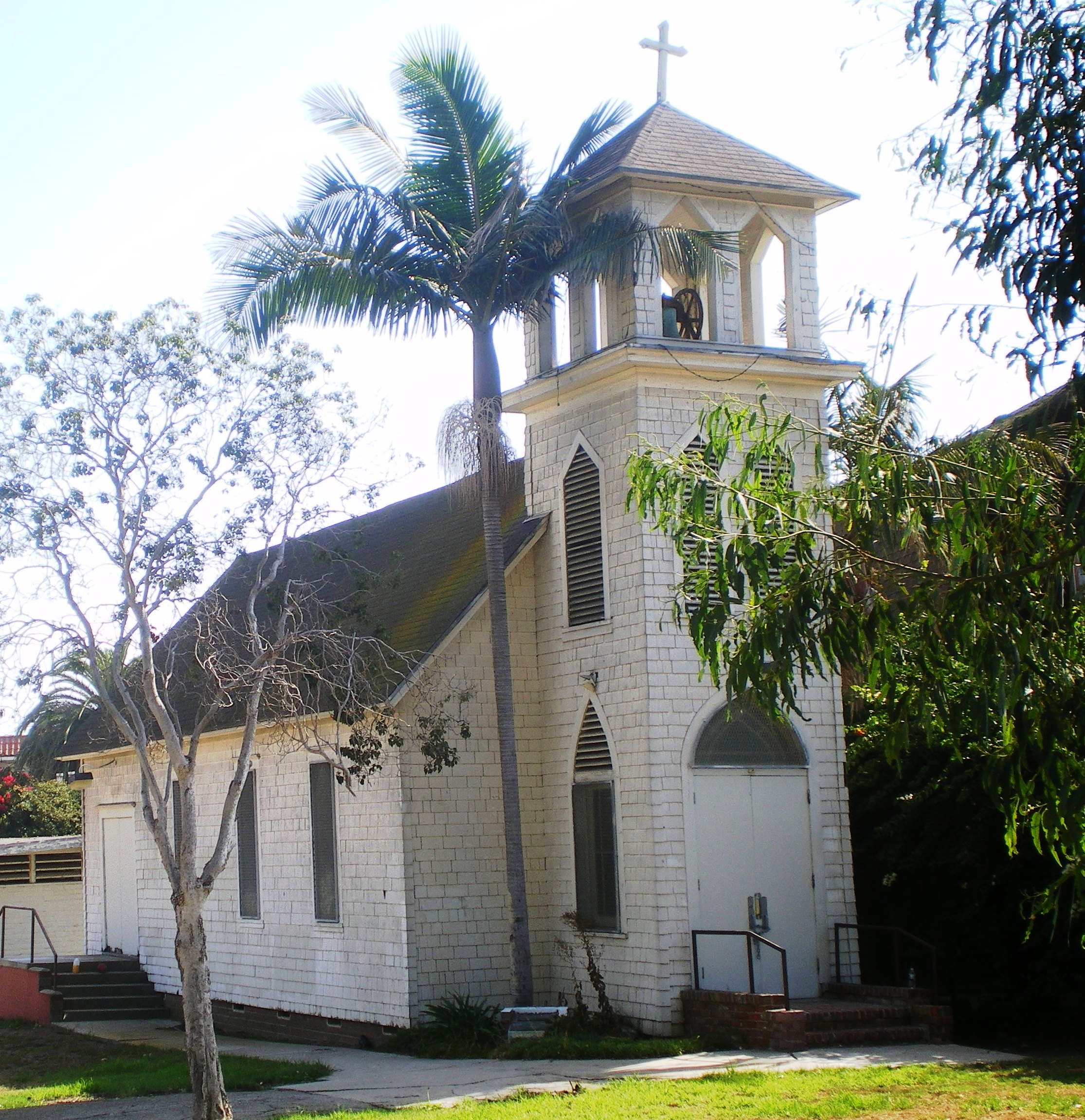 Old St. Peter’s Episcopal Church Harbor View Memorial Park (W. 24th St. & S. Grand Ave., San Pedro, Los Angeles, California